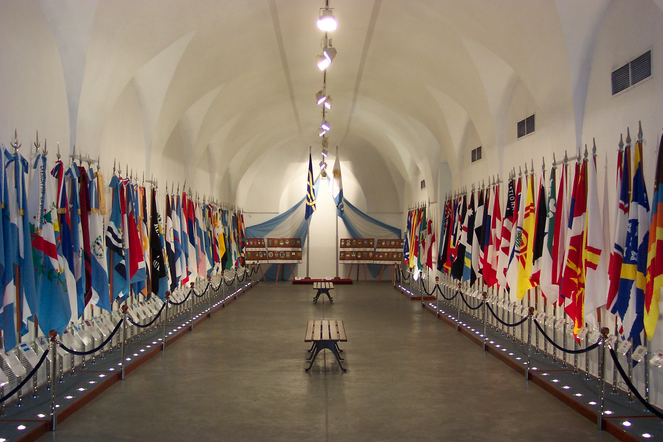 Argentinian flags and flags of FIAV members at Centro Cultural Recoleta during the 21st International Congresses of Vexillology in Buenos Aires